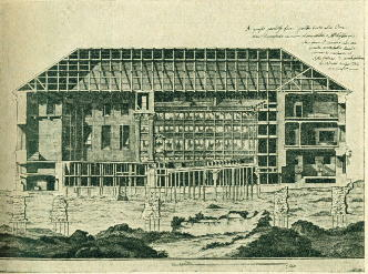 Interior of Theatre/Opera house. Taken from out-of-copyright volume by Chayanova.